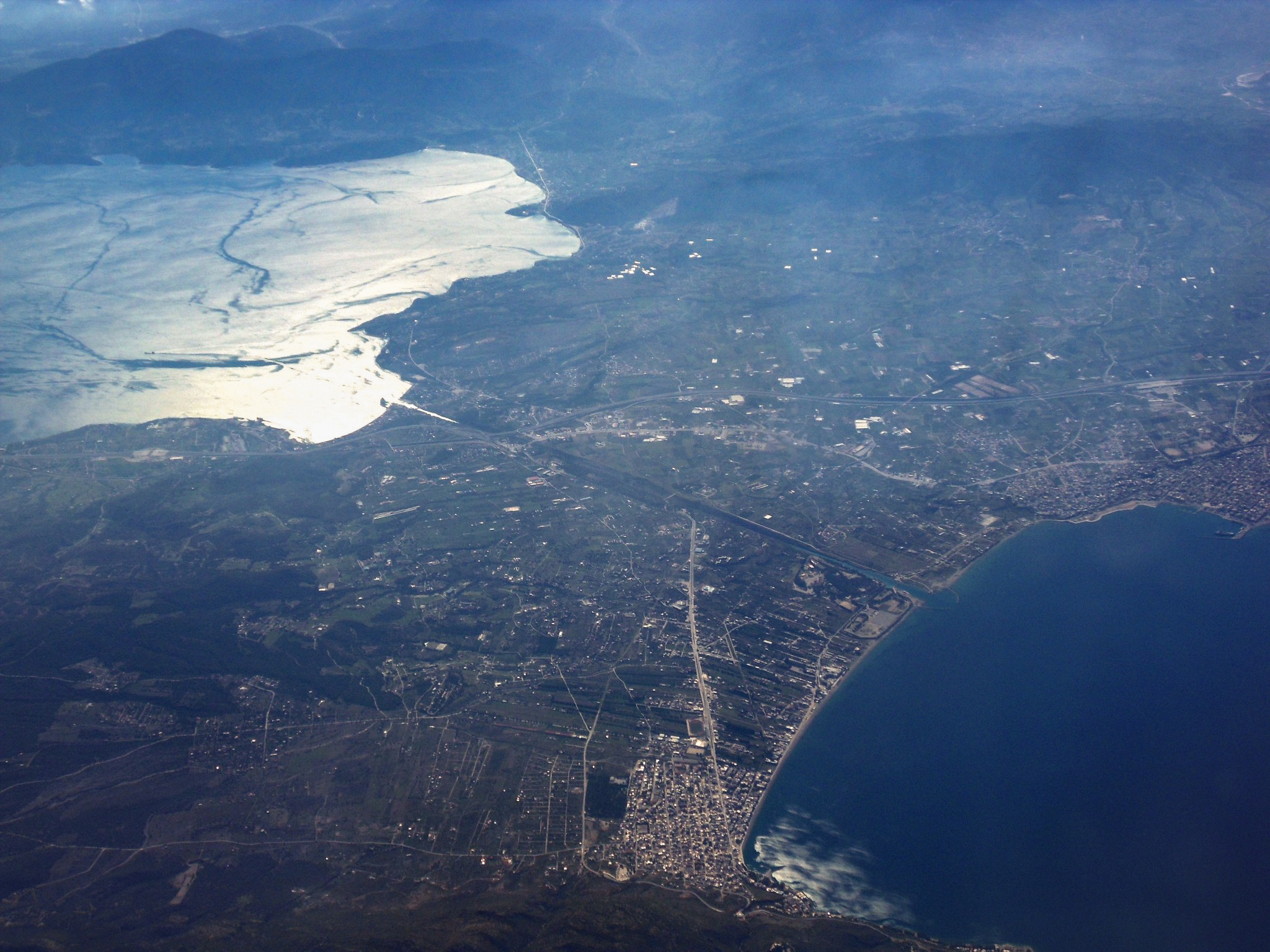 Corinth Canal - Aerial photography